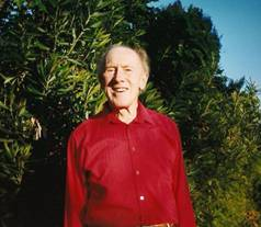 Warren Lamb, one of Rudolf Laban's students and co-workers. Originator of the "Shape" area of Laban Movement Analysis